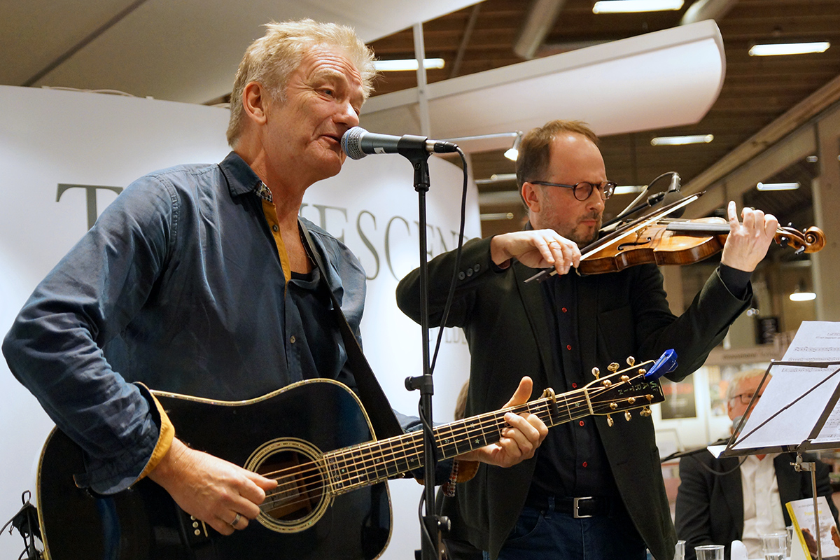 Lars Lilholt (Danish singer) and Peter Spissky (Slovakian-Danish violinist) - playing at the Copenhagen Book Fair "BogForum 2014", Copenhagen, Denmark